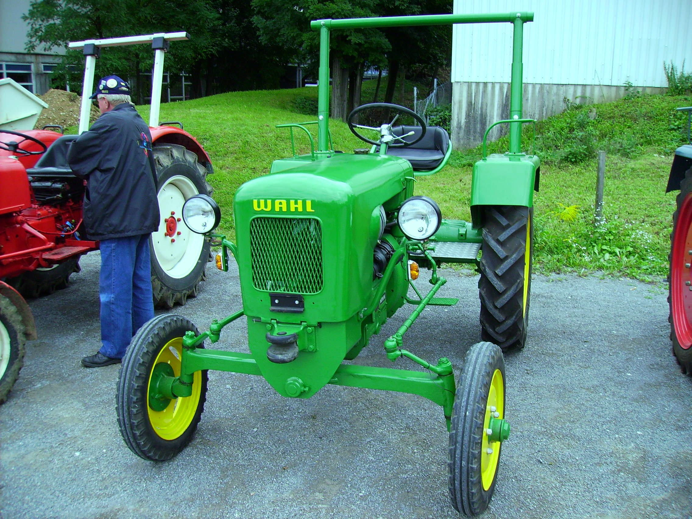 Wahl W55, 1959